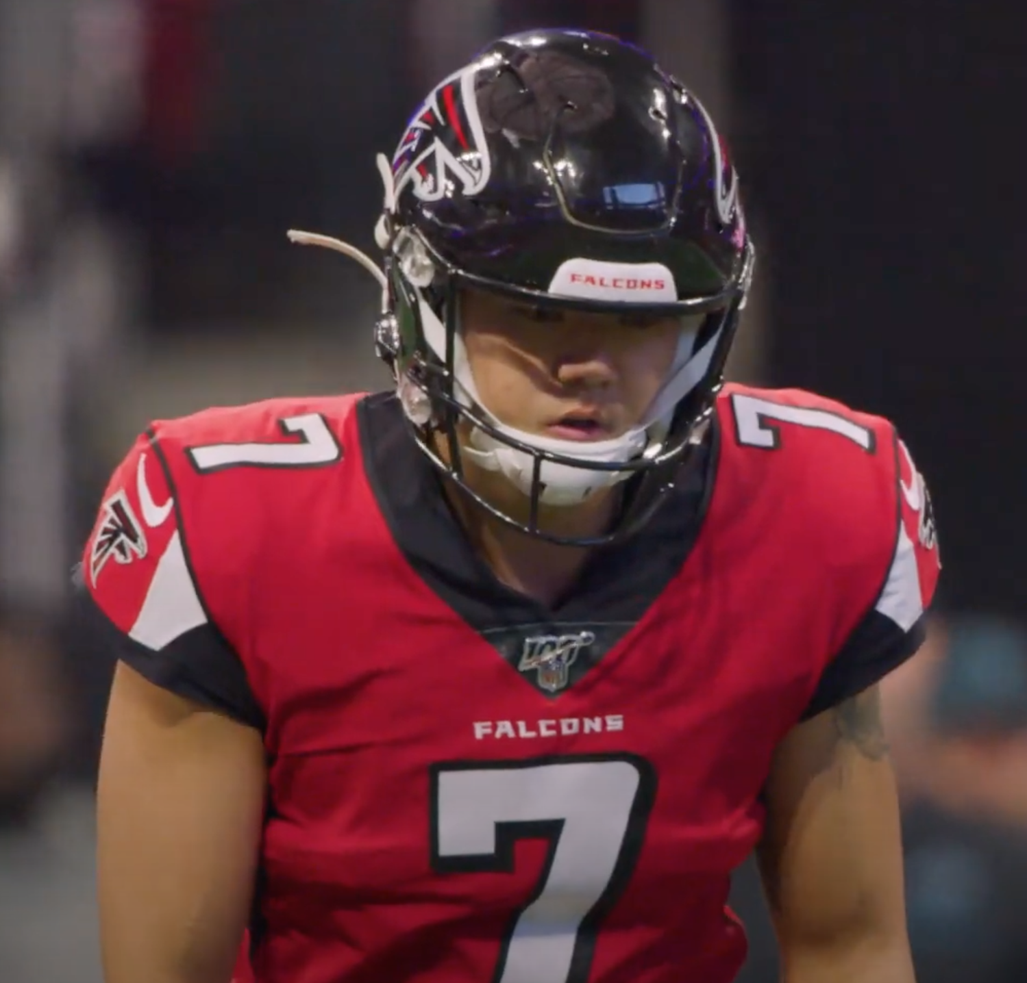 Atlanta Falcons placekicker, Younghoe Koo, in a game against the Jacksonville Jaguars in 2019 season. Image is a screen shot of Youtube video ~ 00:19